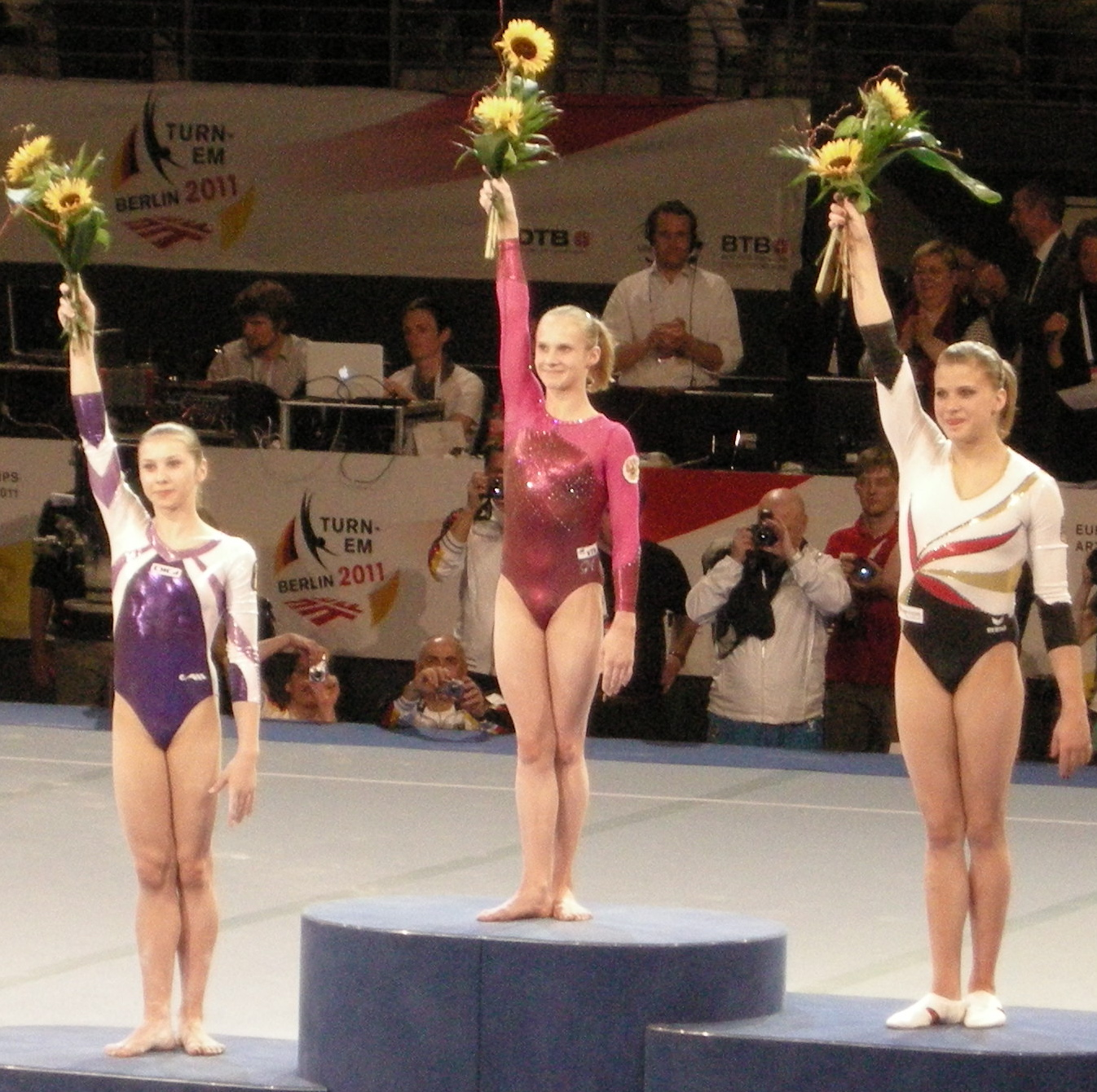 Medal winners Amelia Racea, Anna Dementyeva, and Elisabeth Seitz on the podium after the all around competition at the 2011 European Artistic Gymnastics Championships.